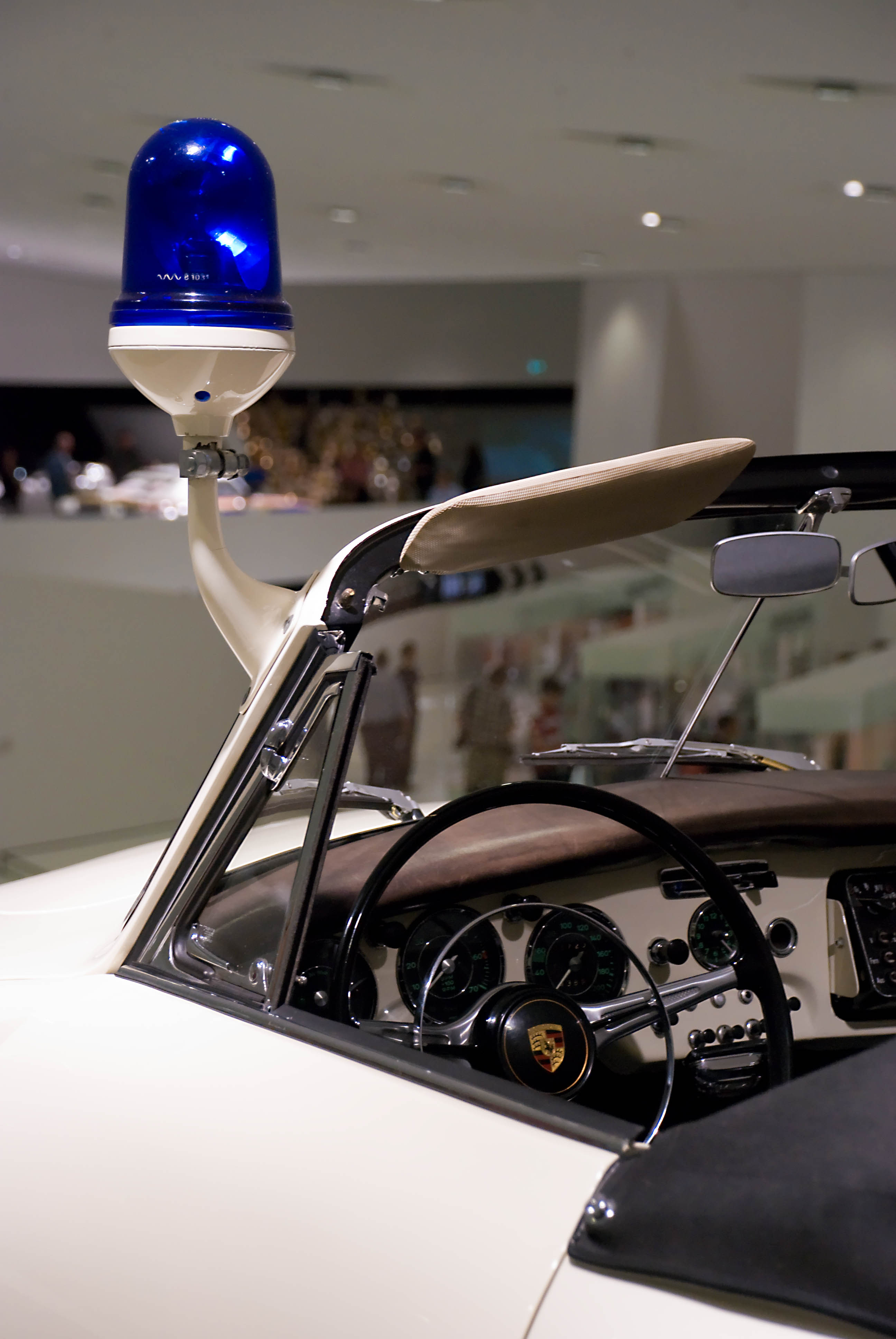 Porsche Museum Native namePorsche-MuseumLocationStuttgartCoordinates48° 50′ 07″ N, 9° 09′ 06″ E Established1976 (old museum) 2009 (new museum)Web page control : Q328623 VIAF: 138511768 GND: 2087859-X SUDOC: 155641123 NKC: ko2015876799 institution QS:P195,Q328623